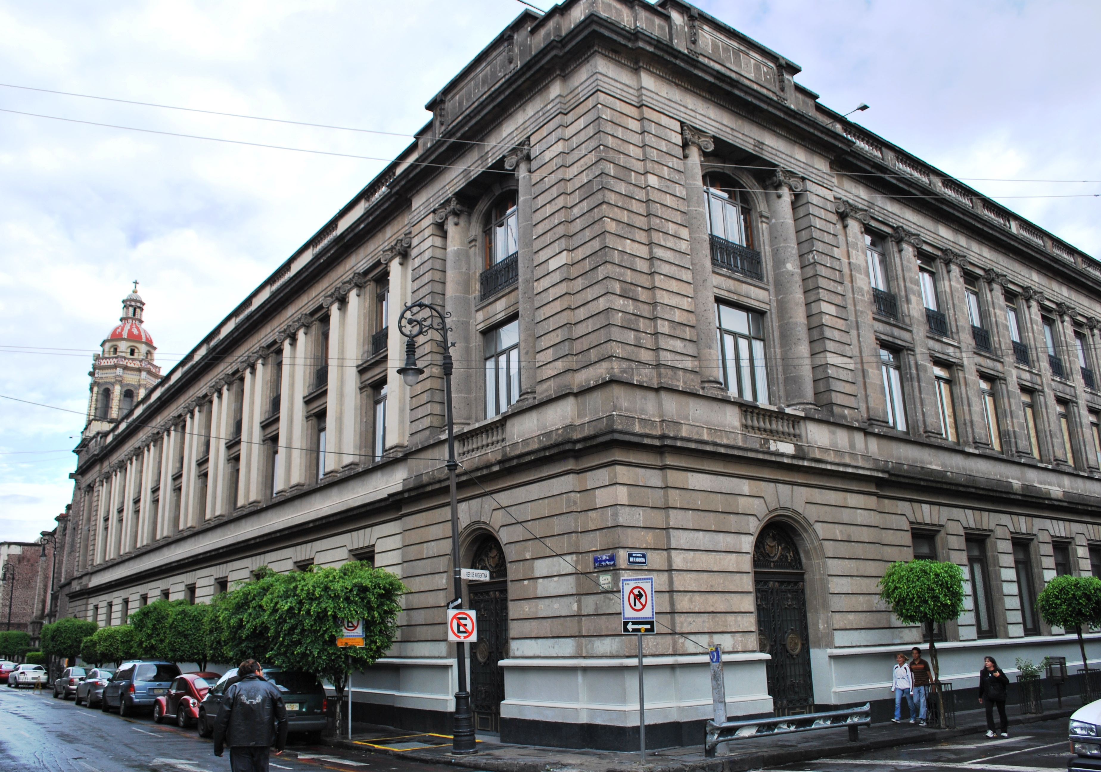 Secretariat of Public Education (Mexico) Headquarters building as viewed from corner of Rep Argentina and Luis Gonzalez Obregon Streets. Old convent church tower is seen at far left. In the historic center of Mexico City